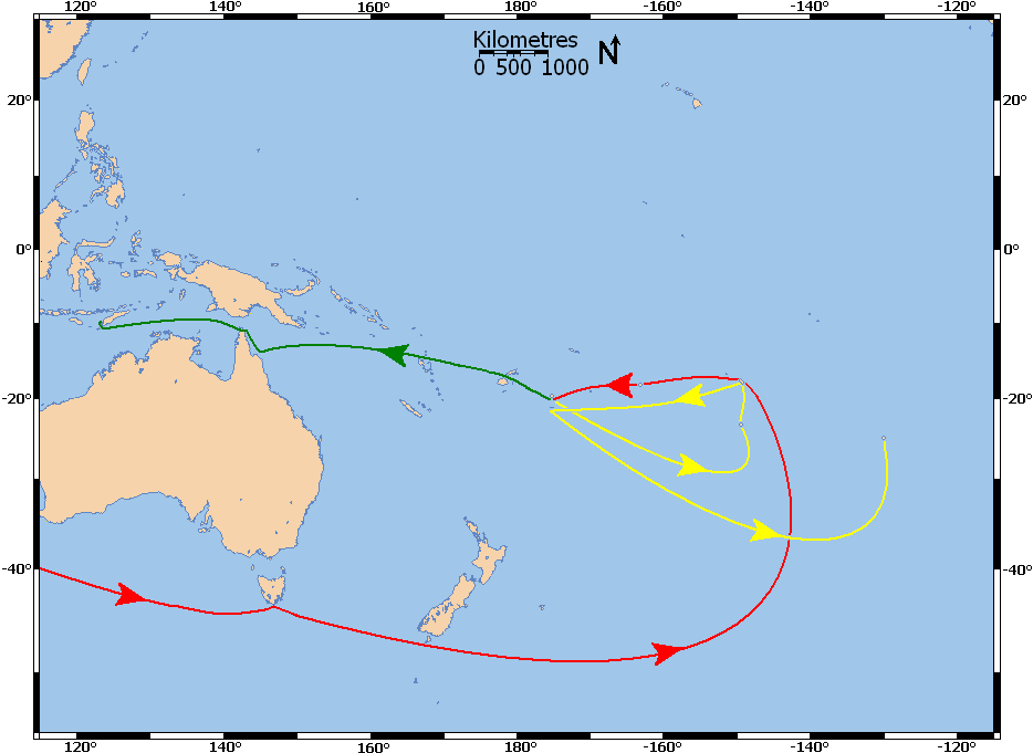 Base map of the voyages of the HMAV Bounty: voyage prior to mutiny is red, voyage of Bounty after mutiny is yellow, voyage of Bligh and others in the longboat is green.